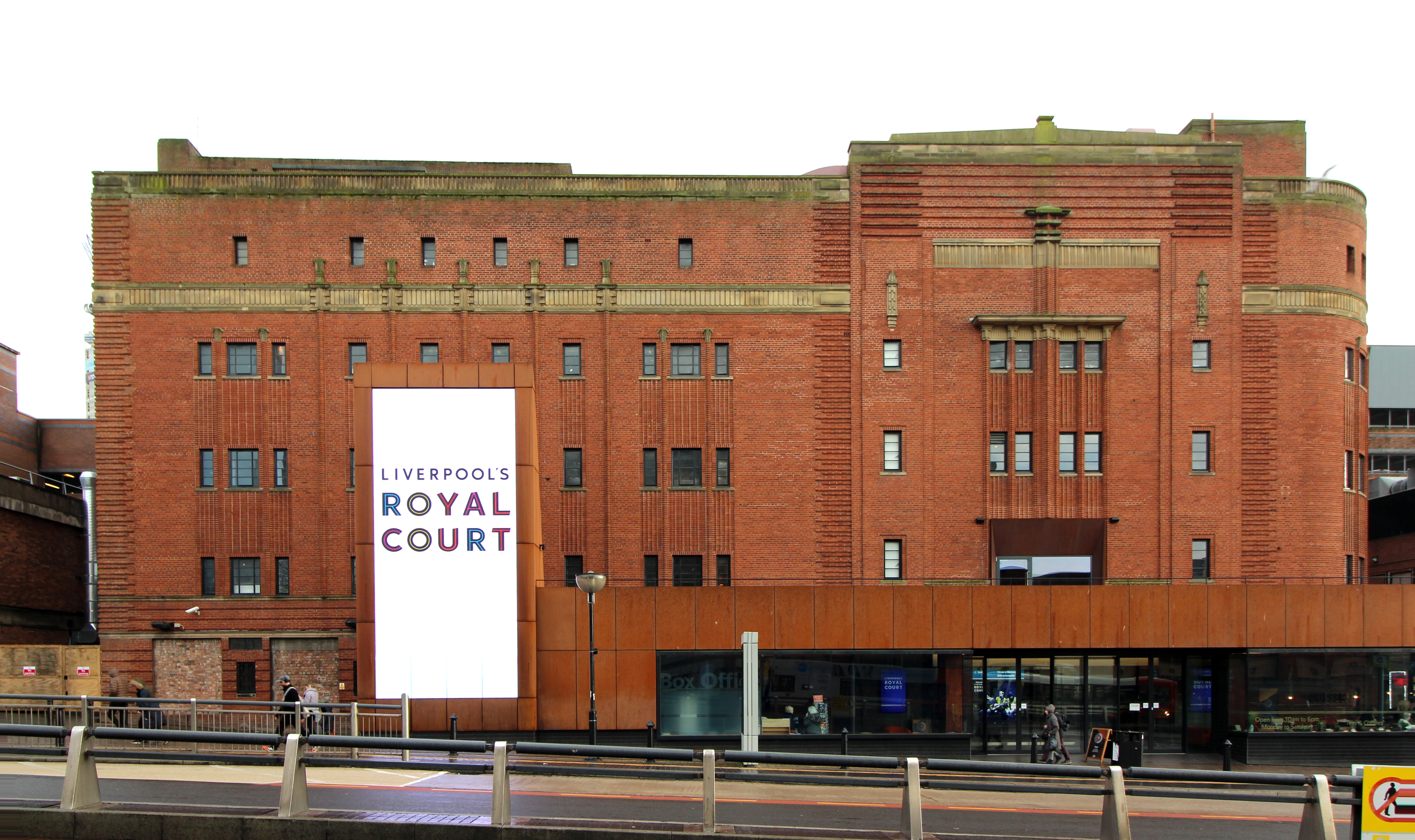 The Royal Court is a Grade II listed art deco style theatre, opened in 1938. Front elevation on Roe Street.